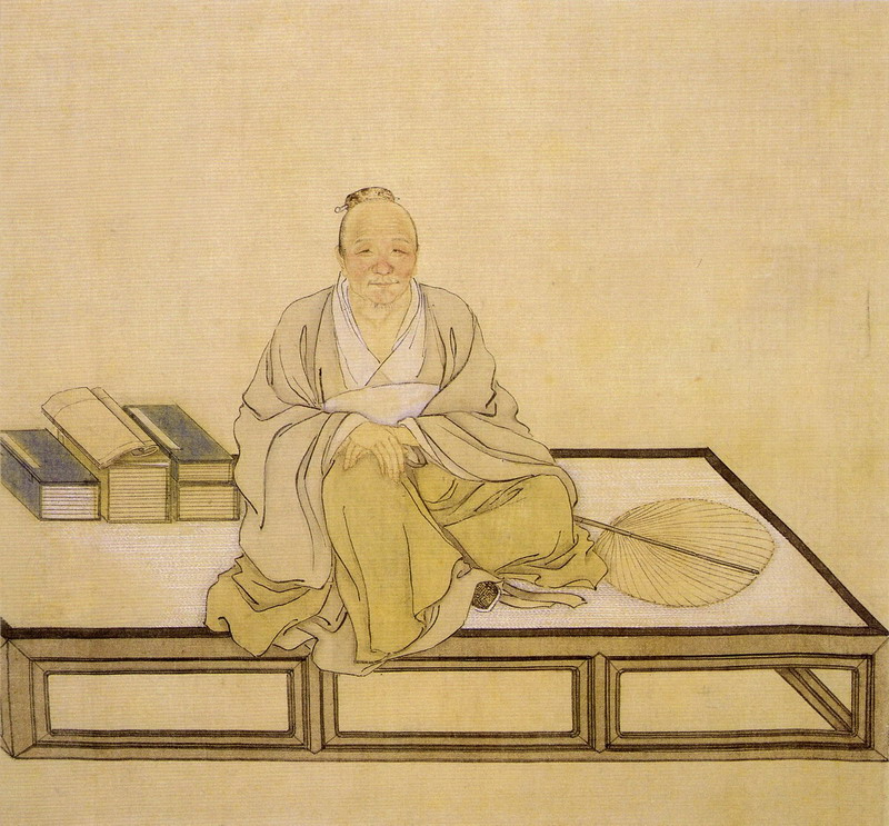 Ni Zan (Chinese: 倪瓚; 1301–1374) was a Chinese painter during the Yuan and early Ming periods. Along with Huang Gongwang, Wu Zhen, and Wang Meng, he is considered to be one of the Four Masters of the Yuan Dynasty.